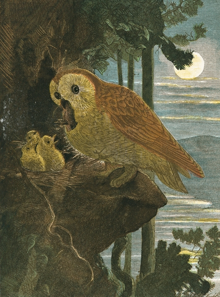 Chromoxylograph of owls from :Some of my feathered and four-footed friends""